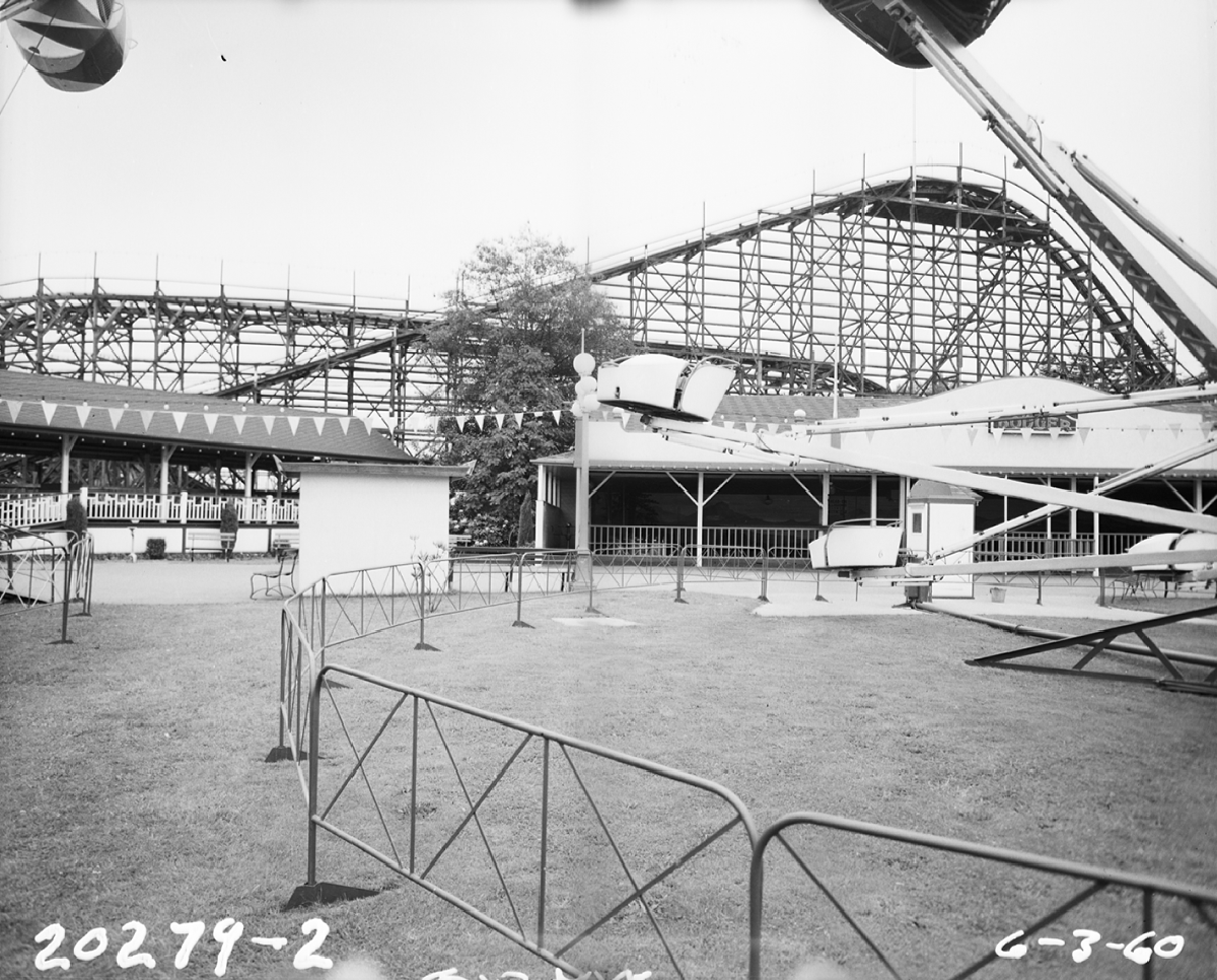 Playland was an amusement park in Bitter Lake, Seattle Washington. According to the Seattle Municipal Archives "This photo was taken the year it was condemned," which is apparently technically true, but it operated through 1961. See Louis Fiset, Playland -- Seattle's Amusement Park (1930-1961), HistoryLink, 2001-09-14. Item 64666, Engineering Department Photographic Negatives (Record Series 2613-07), Seattle Municipal Archives.